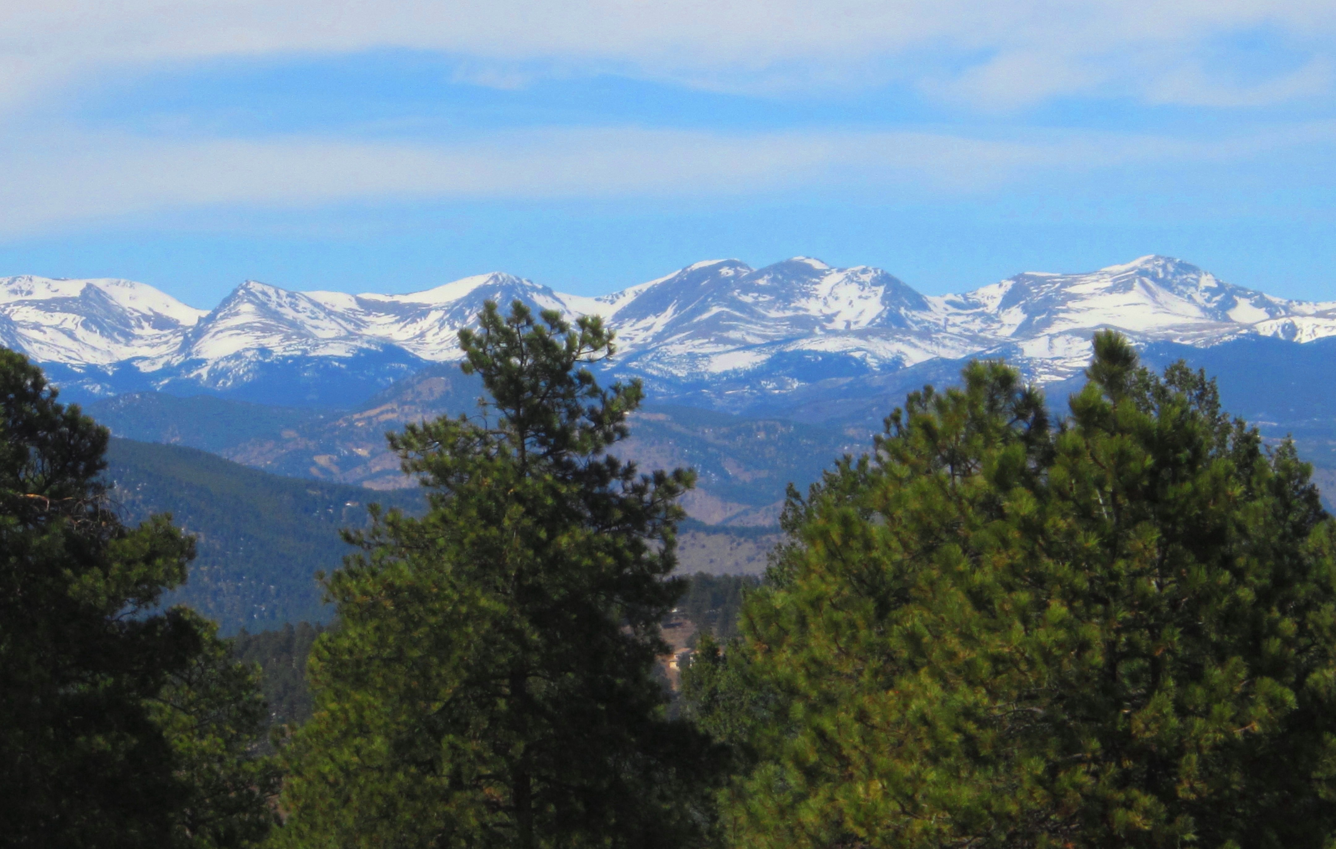 Continental Divide